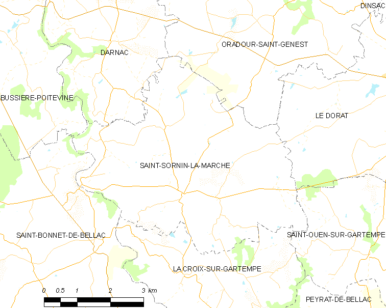 Map of French municipality Saint-Sornin-la-Marche